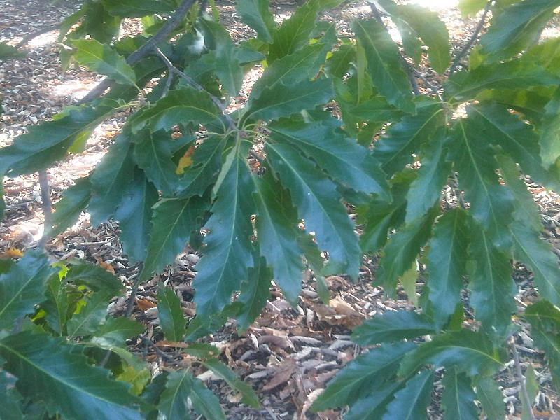 Pedunculate Oak or English Oak (Quercus robur) leaves in Kew Gardens, England.